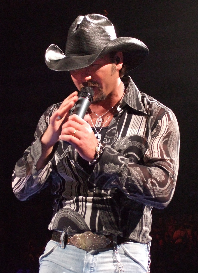 Tim McGraw performing on his Soul II Soul Tour, in 2006.